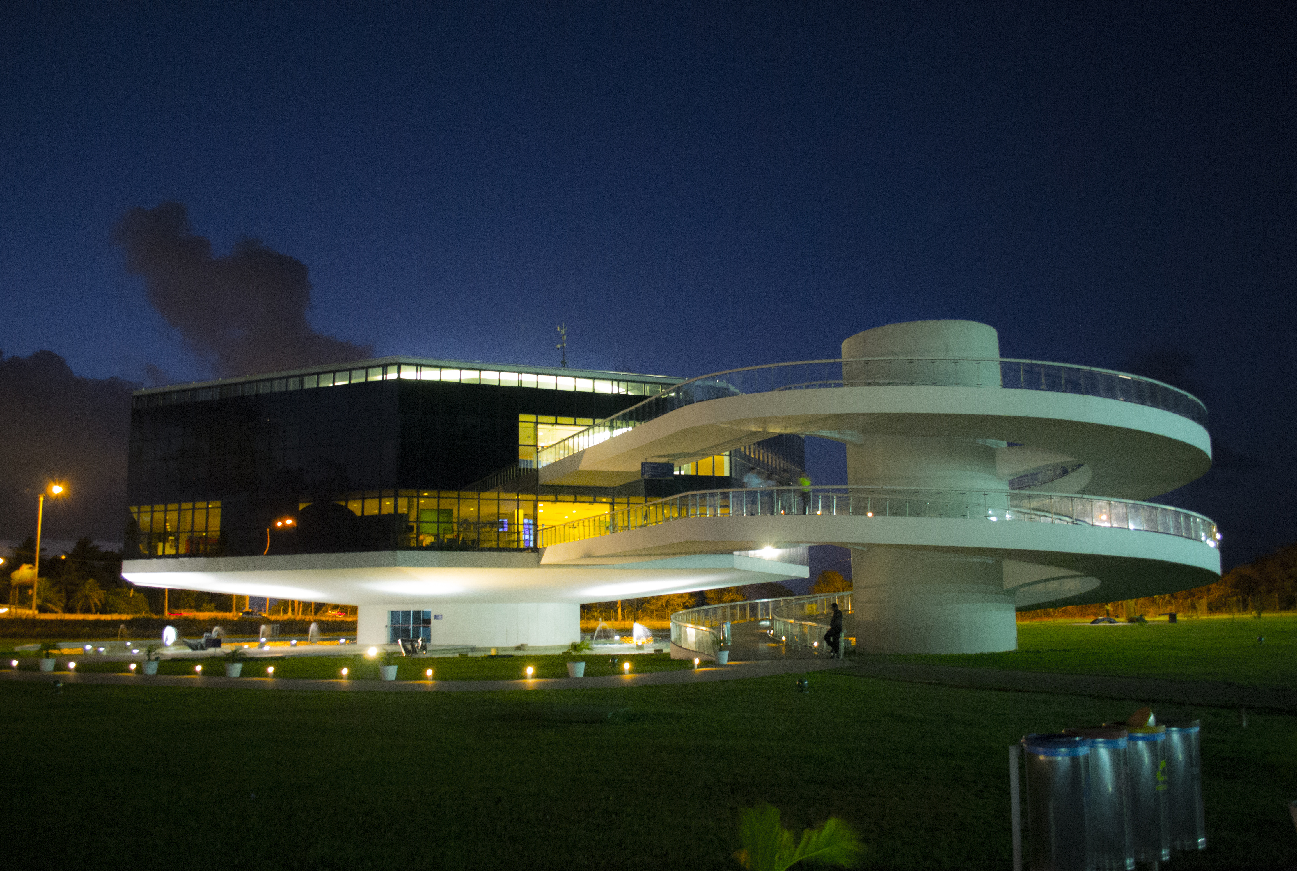 Oscar Niemeyer, Estação Cabo Branco, 2006